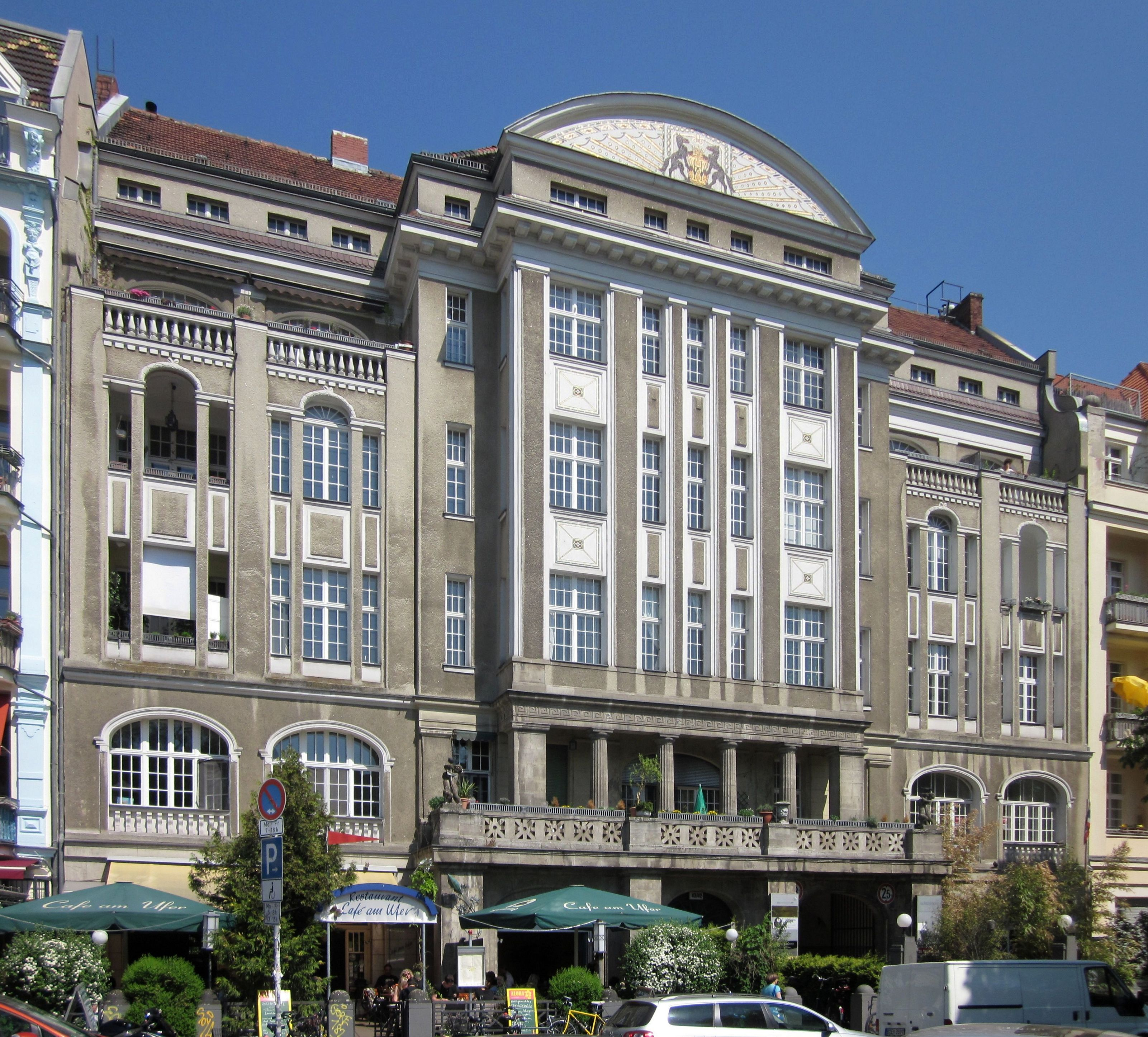 The Holdheimshof at Paul-Lincke-Ufer No. 42-43 in Berlin-Kreuzberg. The complex consisting of a residential building and an industry court was built in 1911 to a design by Hogu Sonnenthal for metal goods company Wilhelm Sonnenthal. It has been designated as a cultural heritage monument.